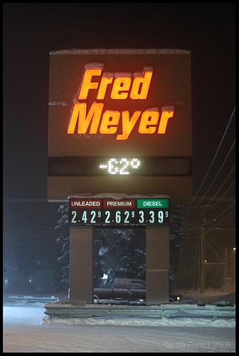 Thermometer at the Fred Meyer Supermarket in Airport Way, Fairbanks, AK showing a very cold night, -62 degrees Fahrenheit (-53 degrees Celsius). Temperatures like this are the extreme low in the sub arctic winter of Fairbanks, AK, but colder temperatures aren't unheard of.